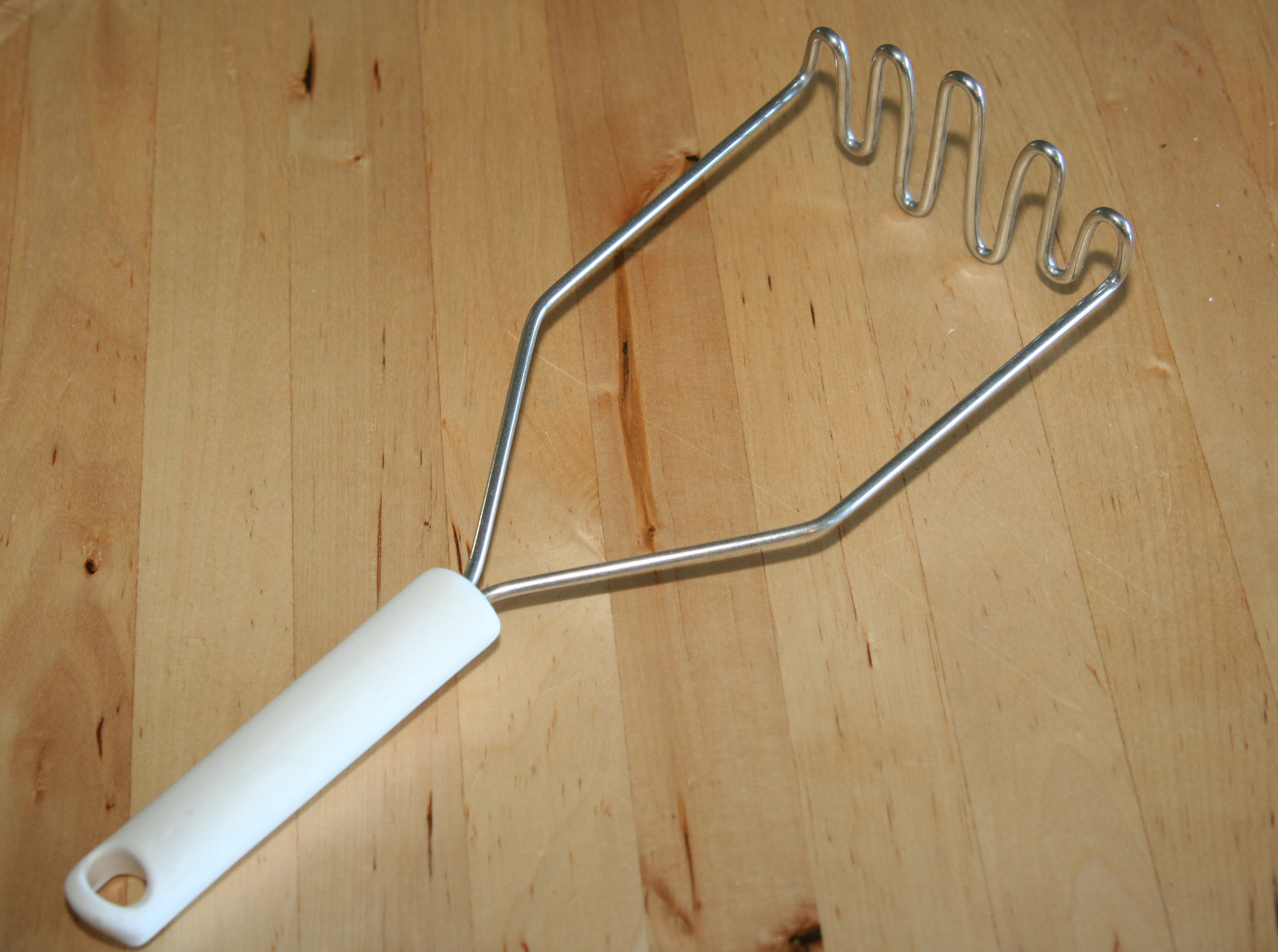 Potato smasher (?)